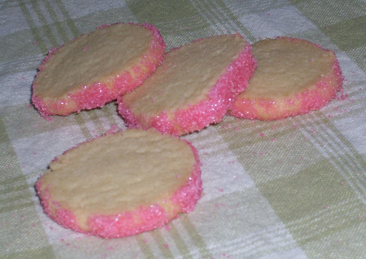 Home baked Swedish Brysselkex